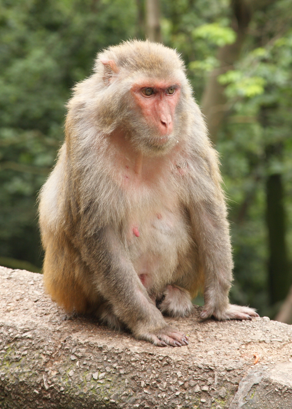 Rhesus macaques on Qianling Shan in the outskirts of Guiyang.